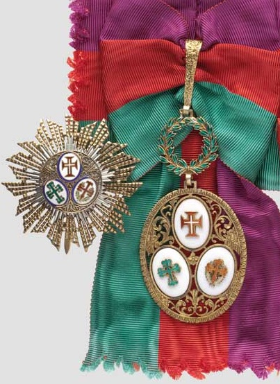 Sash of the three orders (Banda das tres ordens), a combination of "Grand Cross of the Order of Aviz", "Grand Cross of the Order of Christ (Portugal)" and "Grand Cross of the Order of Saint James of the Sword"